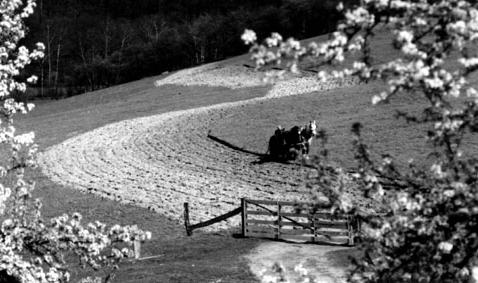 Contour plowing – Caption: "Plowing strip just below diversion ditch." (Caption from photograph of a Lancaster County, Pennsylvania, farm, taken April 20, 1938.)